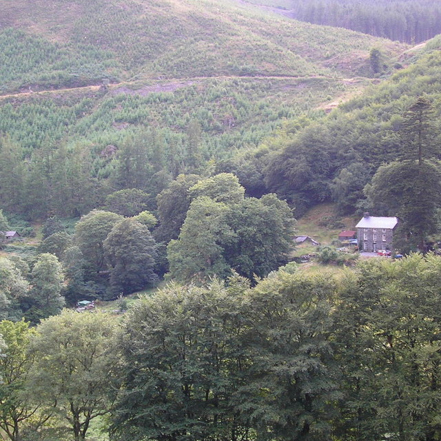 Hen-gae is the name of the house on the right which has given its name to the valley, the crag (Craig Hen-gae) and the hill behind it. In the Afon Llefenni valley near Aberllefenni, Gwynedd, Wales.